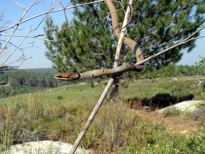 Coluber rubriceps Taken In Israel, By Guy Haimovitch